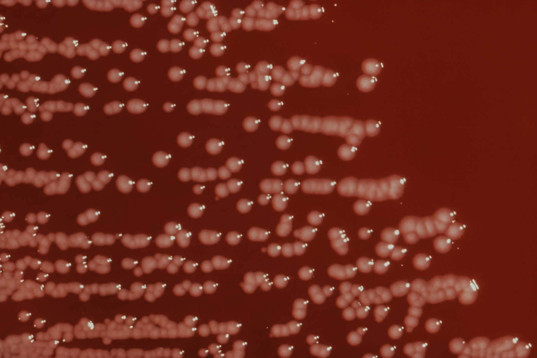 Yersinia enterocolitica on Blood Agar plate